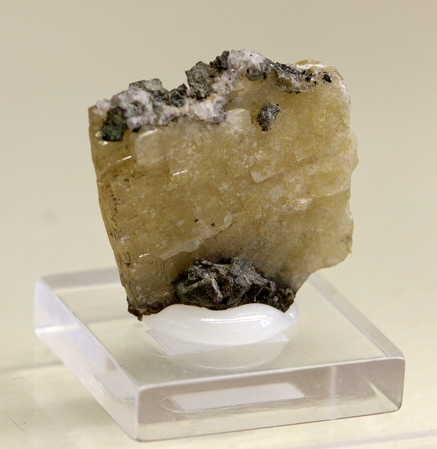 Matlockite - Locality: Cromford, Derbyshire, England - Displayed in the Mineralogical Museum, Bonn, Germany